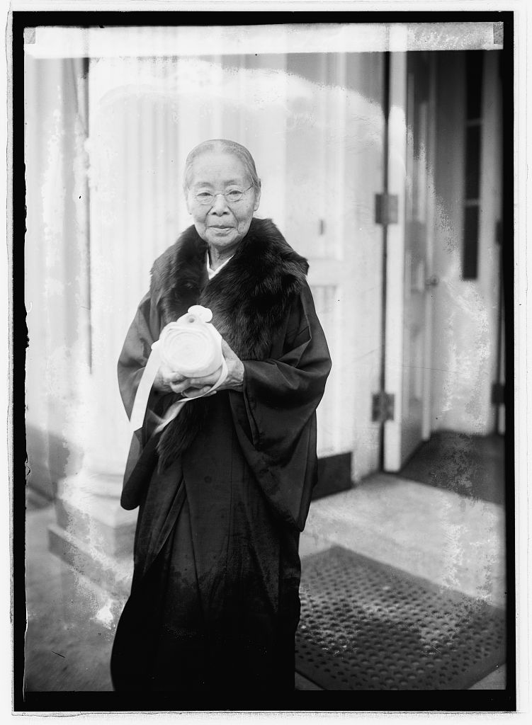 Kaji Yajima, November 1921, on a visit to the United States; from the National Photo Company collection at the Library of Congress.